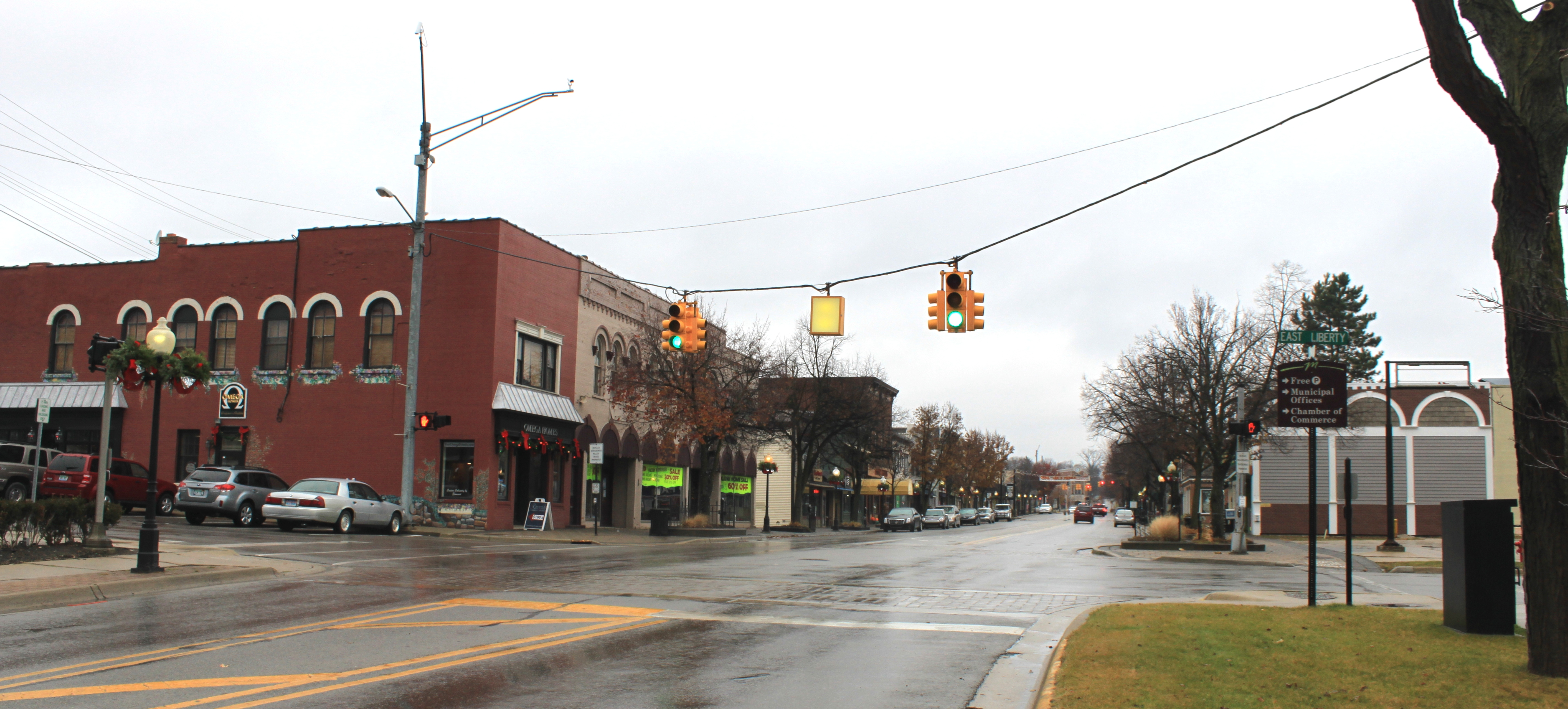 Village of Milford Michigan central business district, Main Street at Liberty Street, facing north.